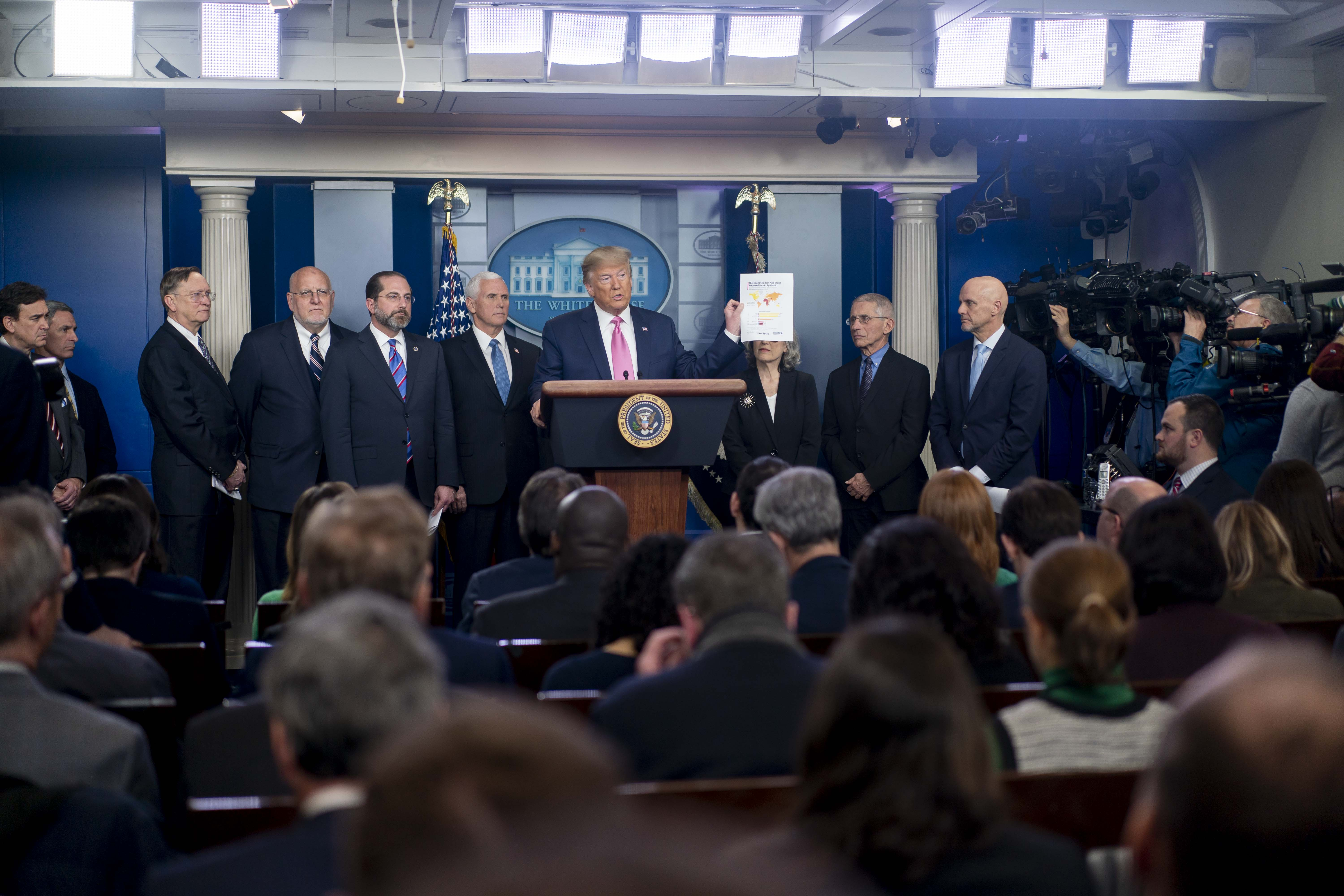 President Donald J. Trump, joined by Vice President Mike Pence and members of the Coronavirus Task Force, speaks to members of the press Wednesday, Feb. 26, 2020, in the James S. brady Press Briefing Room of the White House. (Official White House Photo by D. Myles Cullen)